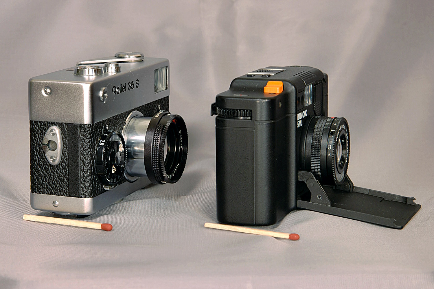 Cameras Rollei 35S and Minox 35 ML, side, both open